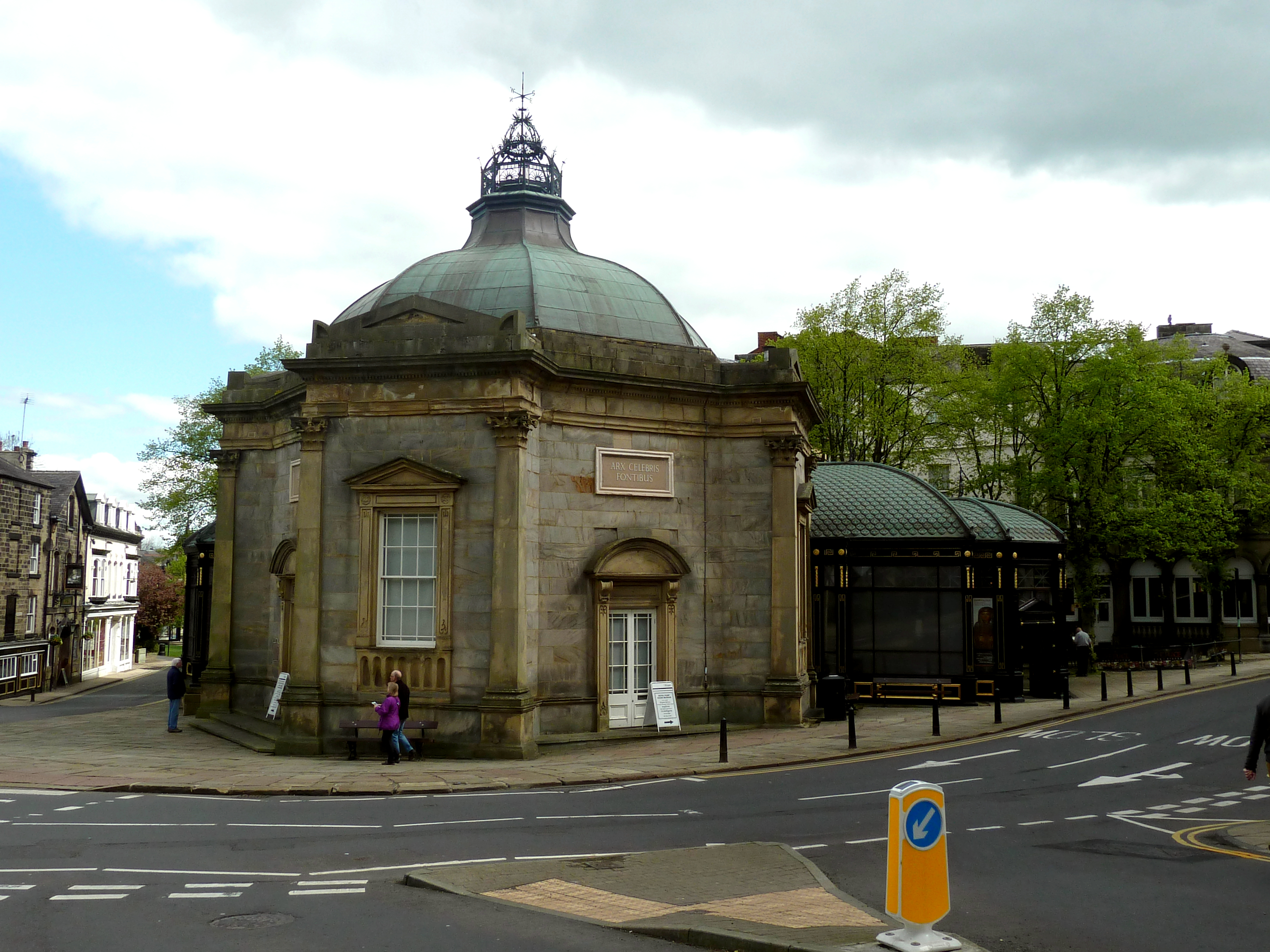 Royal Pump Room Museum, Harrogate, North Yorkshire. Designed by Isaac Thomas Shutt (1818–1879) in 1842. The glazed Annexe was added in 1913 by architect Leonard Clarke.